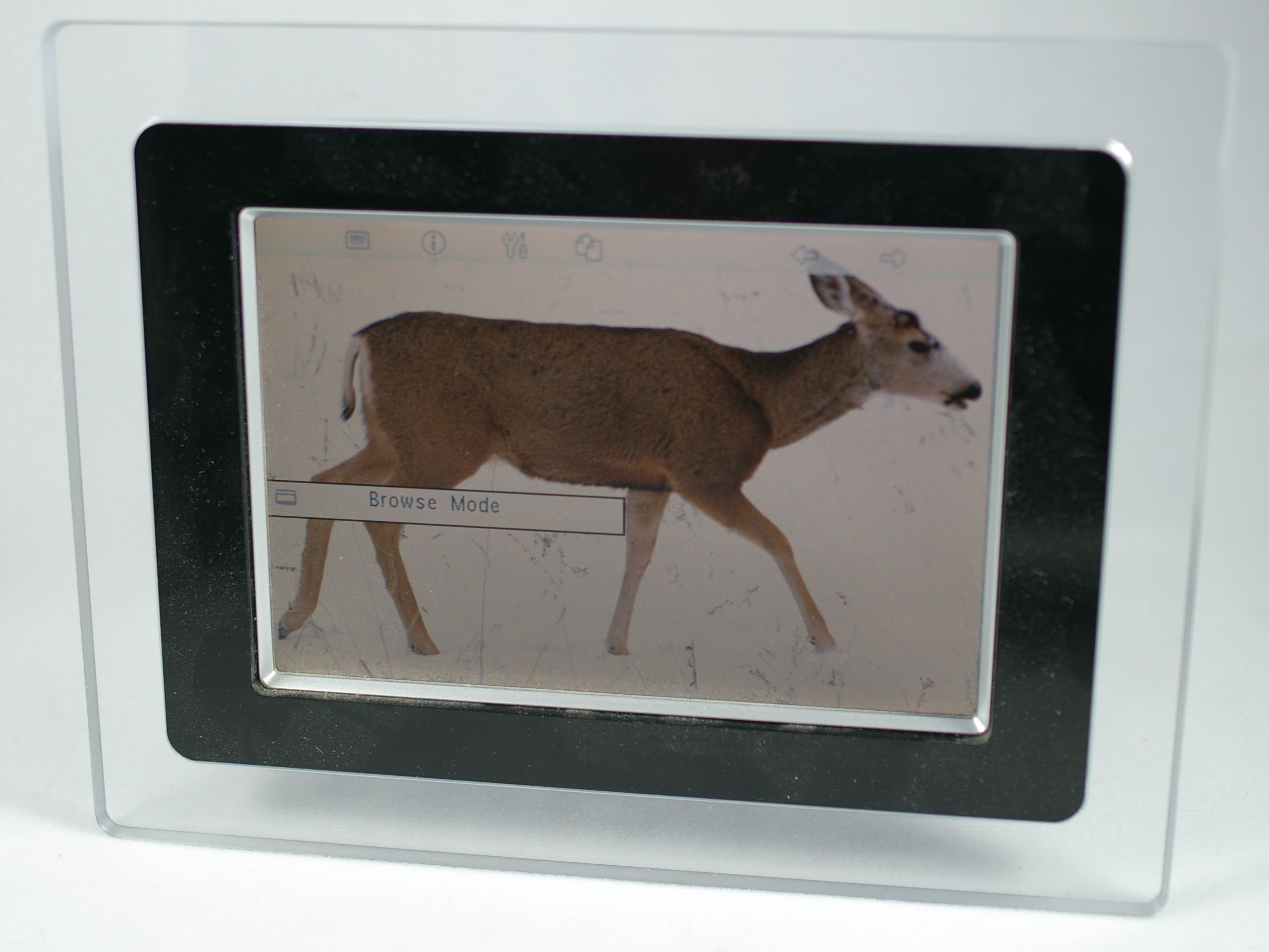 A digital photo frame with a picture. The displayed picture is also on commons File:Mule Deer in snow.jpg